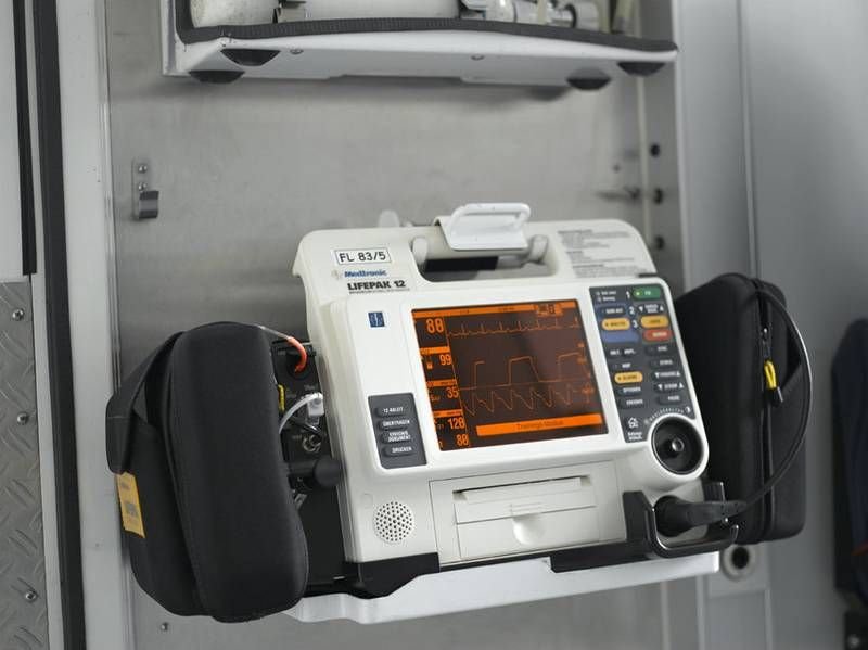 Biphasic defibrillator, ECG, NIBP SpO2 monitor